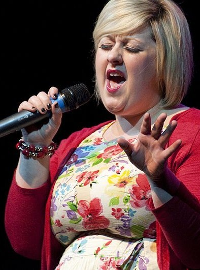 Michelle McManus